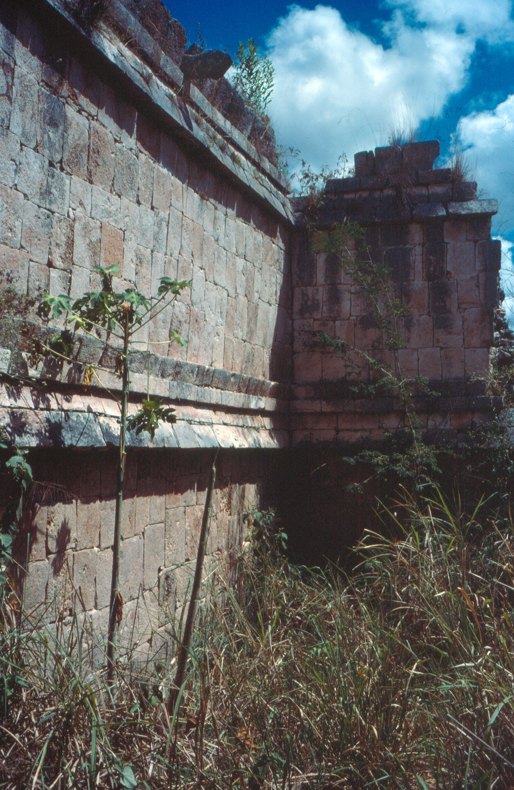 Uxmal, Yucatan, Mexico: Phallic temple.